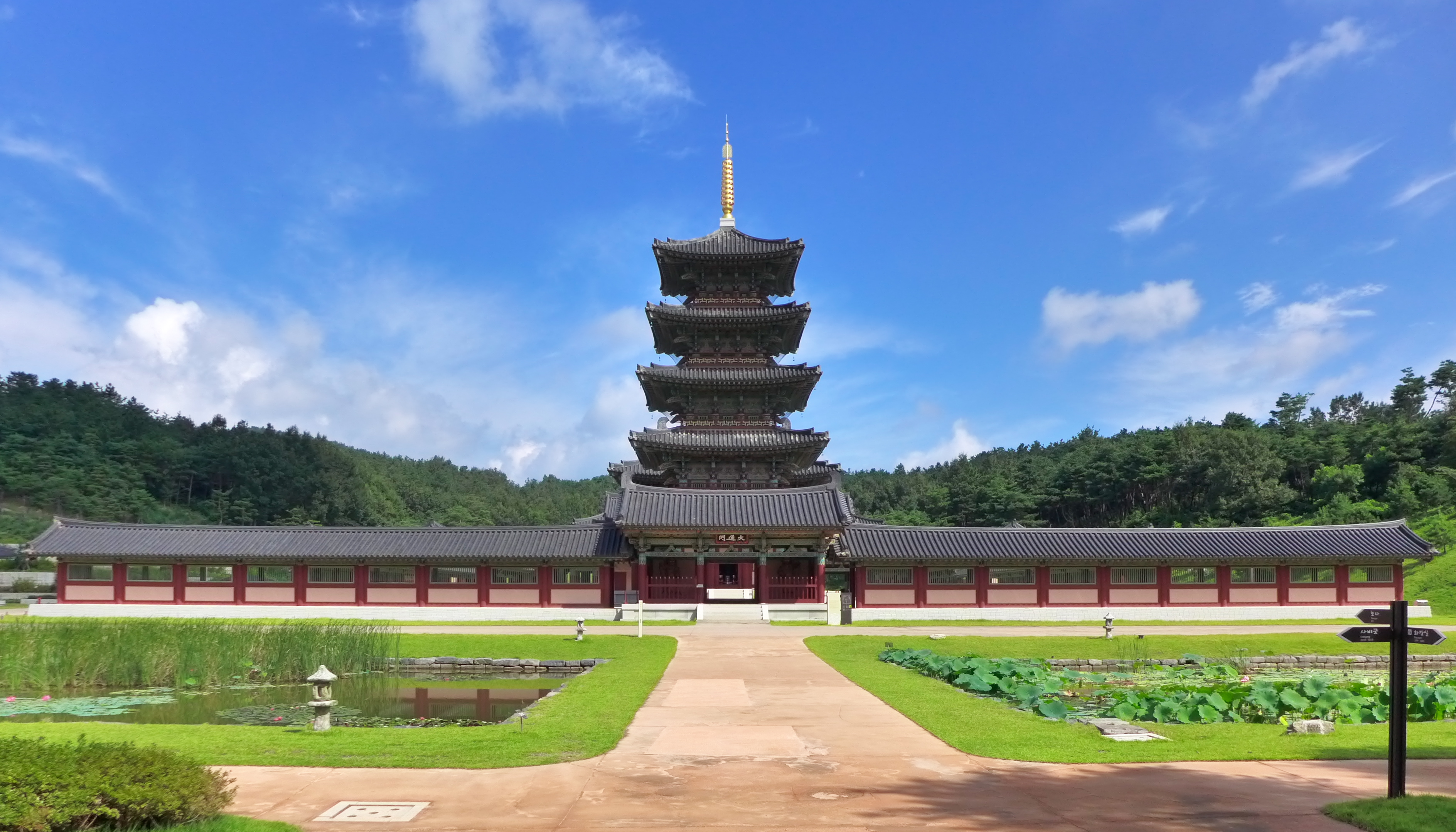 Baekje Cultural Land, Buyeo-gun, Chungcheongnam-do, South Korea